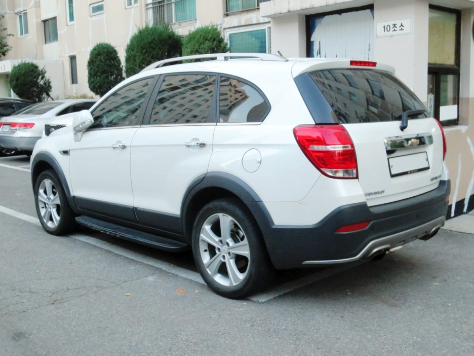 chevrolet captiva